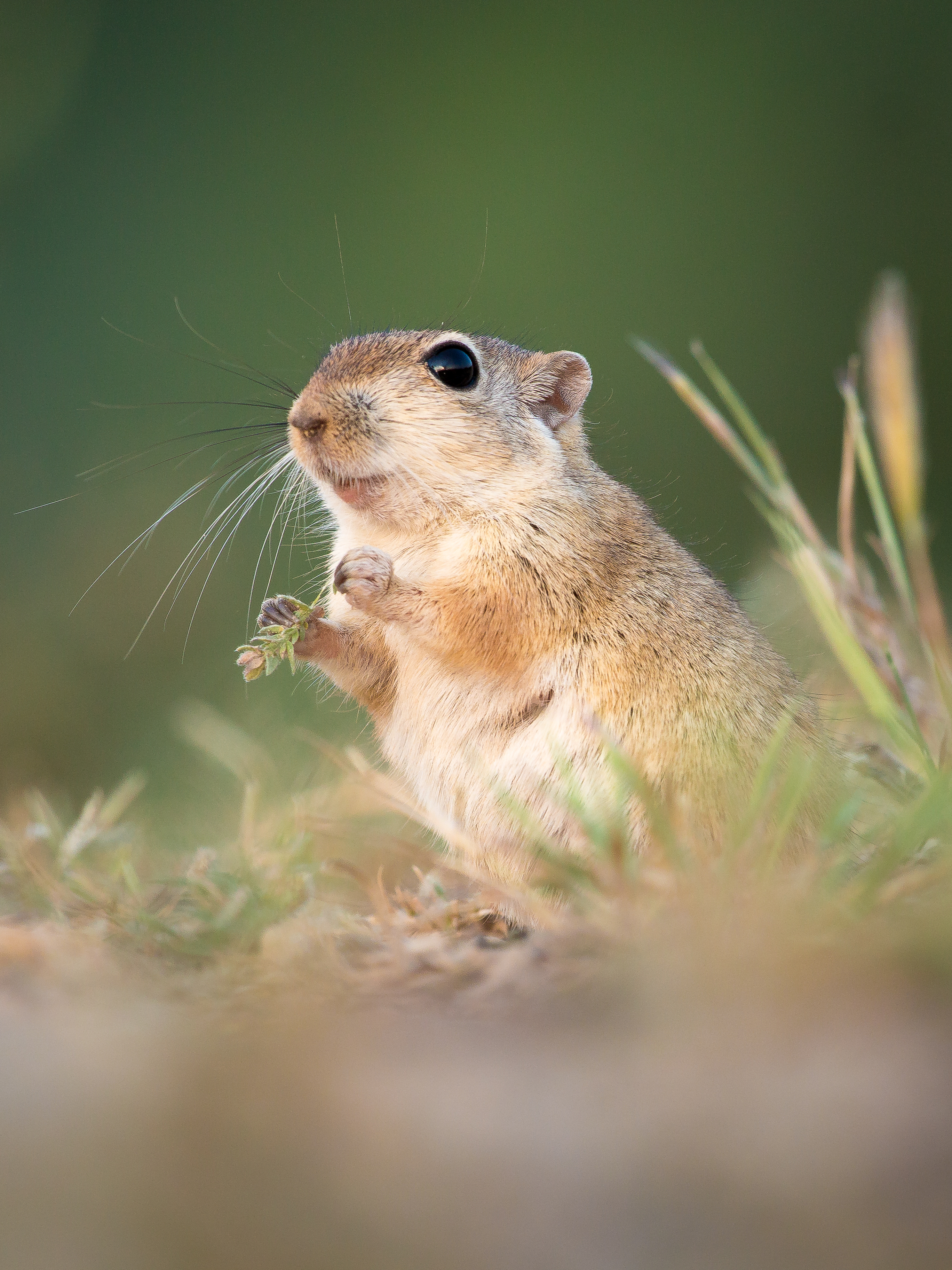 At Tal Chappar Sanctuary